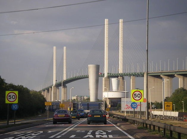 Crossing the Thames from Kent to Essex via the Dartford tunnel with the Queen Elizabeth II bridge in the background